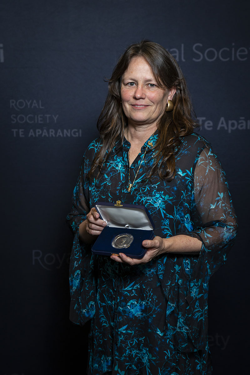 Professor Cather Simpson FRSNZ has been awarded the Pickering Medal by Royal Society Te Apārangi for her pioneering research and commercialisation of innovative photonic technologies, addressing challenges with a New Zealand focus and global impact. This was at Research Honours Aotearoa, an annual awards ceremony that recognises achievements and contributions of innovators, kairangahau Māori, researchers and scholars in science, technology and humanities throughout Aotearoa New Zealand, which was held in Ōtepoti Dunedin on 17 Whiringa-ā-nuku October 2019.